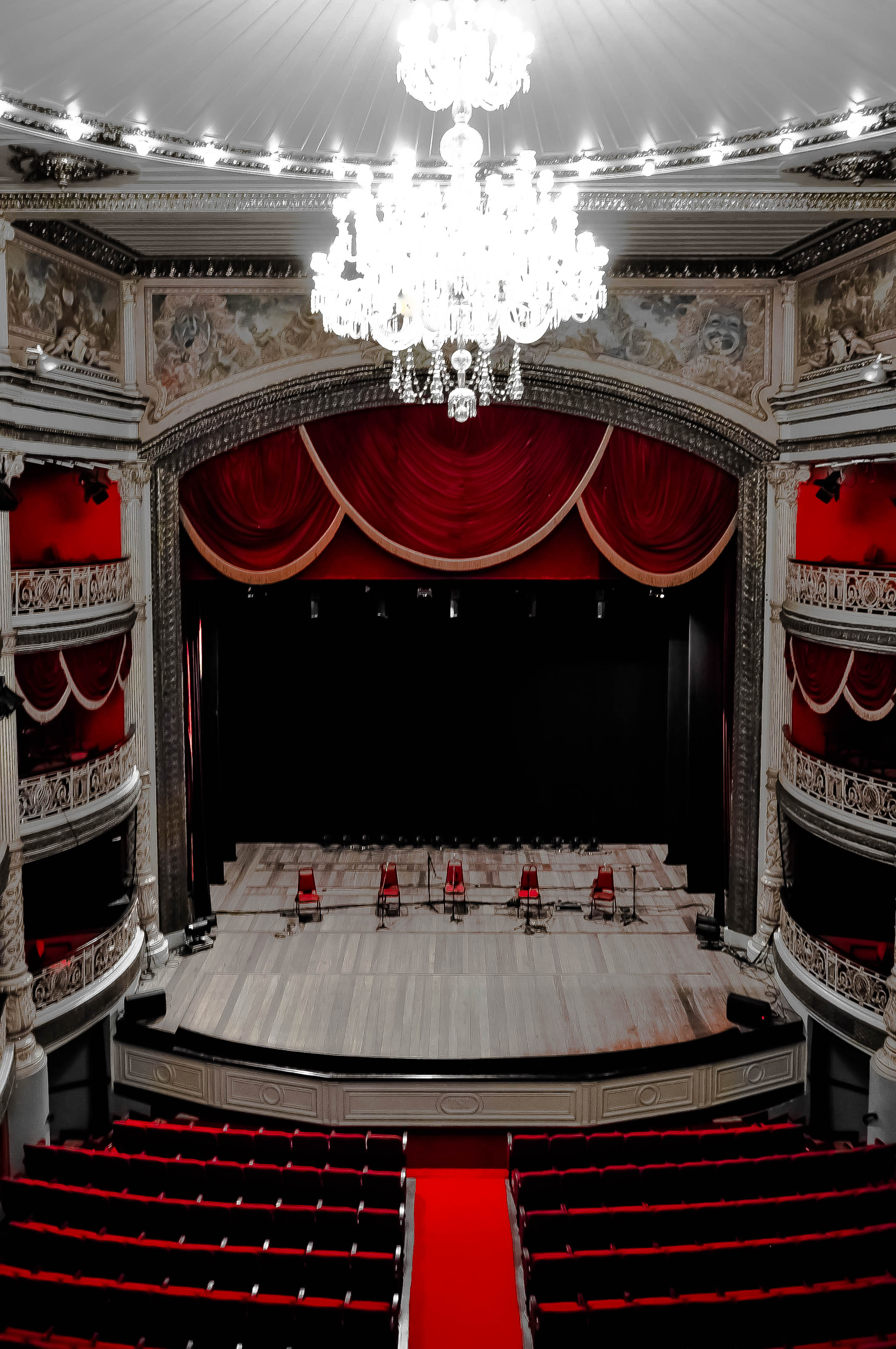 Palco do Teatro de Santa Isabel, Recife, Pernambuco, Brasil.